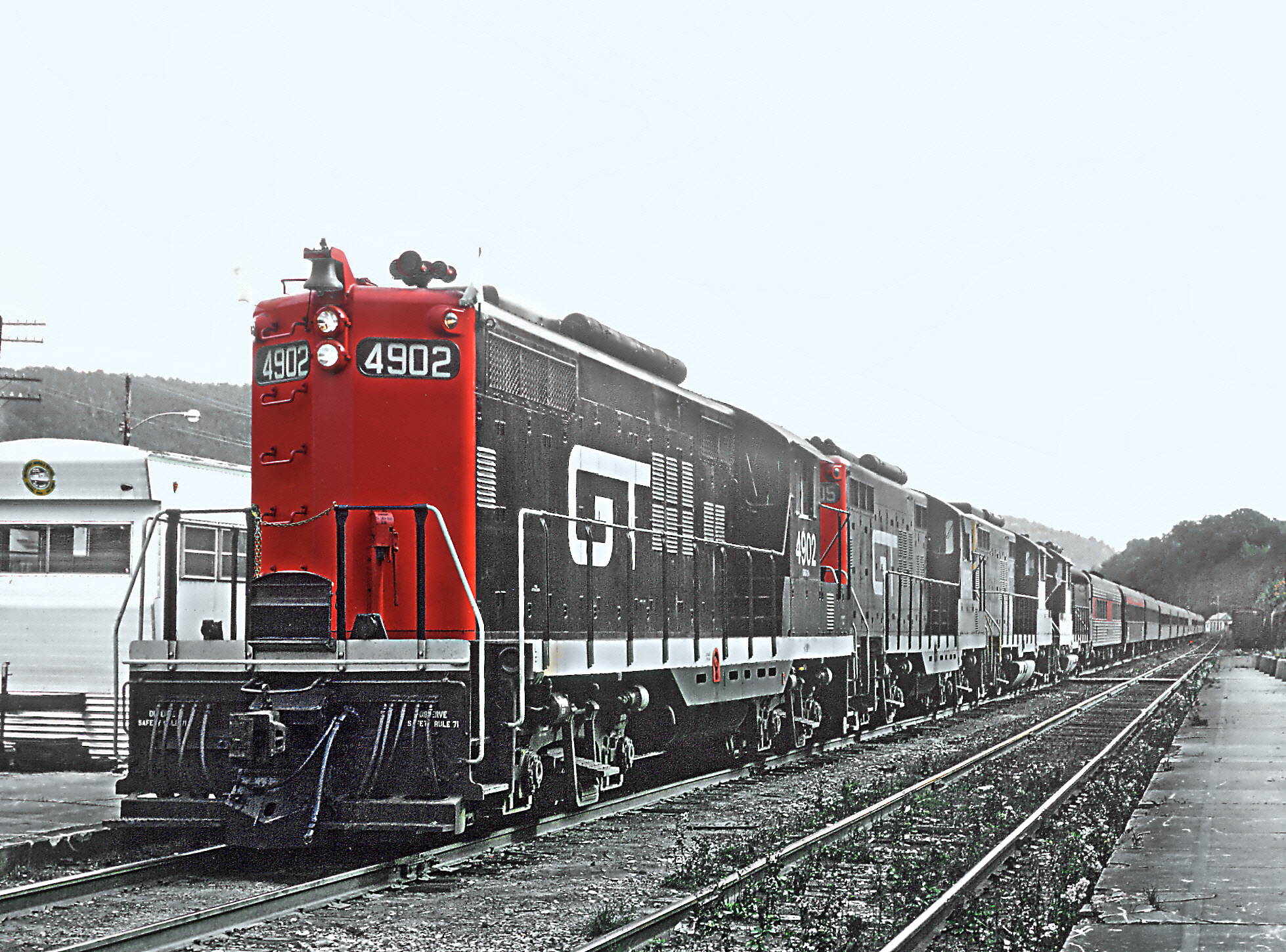 Central Vermont Railway excursion train at Brattleboro, Vermont in October 1968. The lead units were spiffed up GP9 locomotives of the Grand Trunk Western.